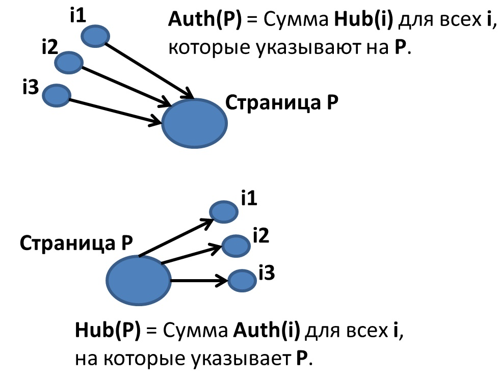 The basic operations in HITS algorithm: authority update rule and hub update rule